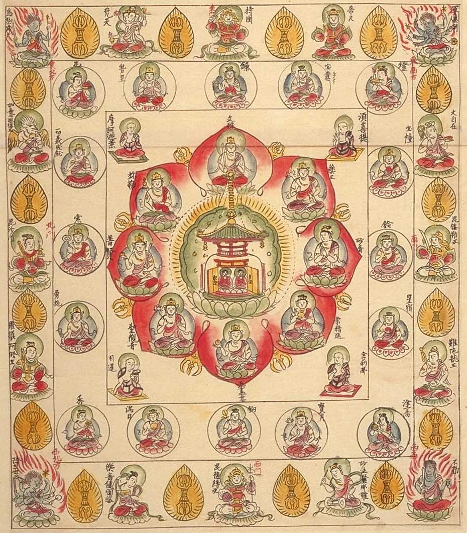 Hokke mandala (Mandala showing in graphic form a episode in Saddharma pundarika sutra)